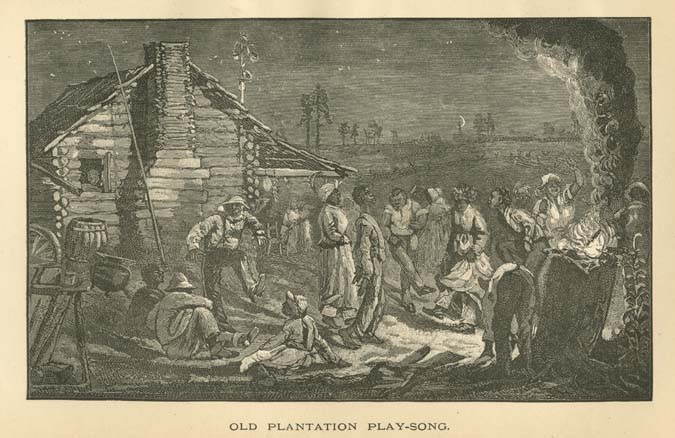 "Old Plantation Play Song", from Uncle Remus, His Songs and His Sayings: The Folk-Lore of the Old Plantation, by Joel Chandler Harris, p. 164a. Illustrations by Frederick S. Church and James H. Moser. New York: D. Appleton and Company, 1881.